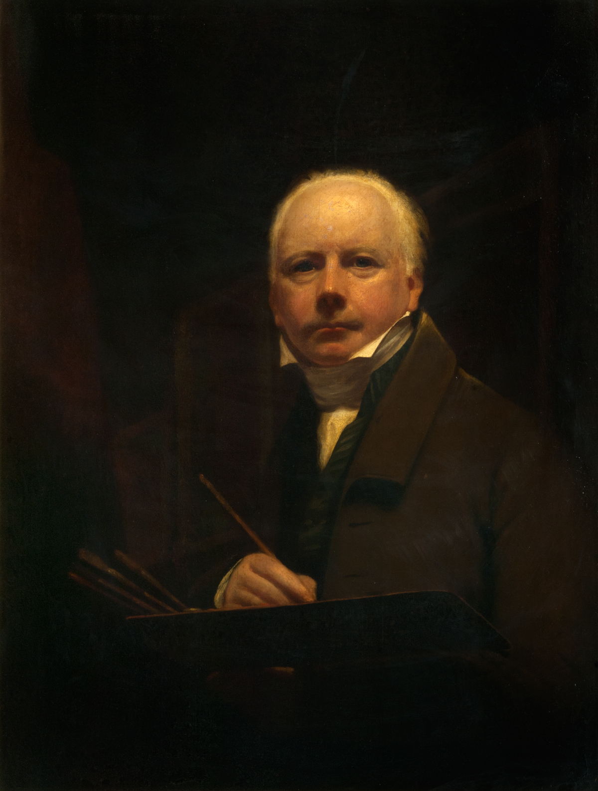 Self portraint of George Watson scottish painter